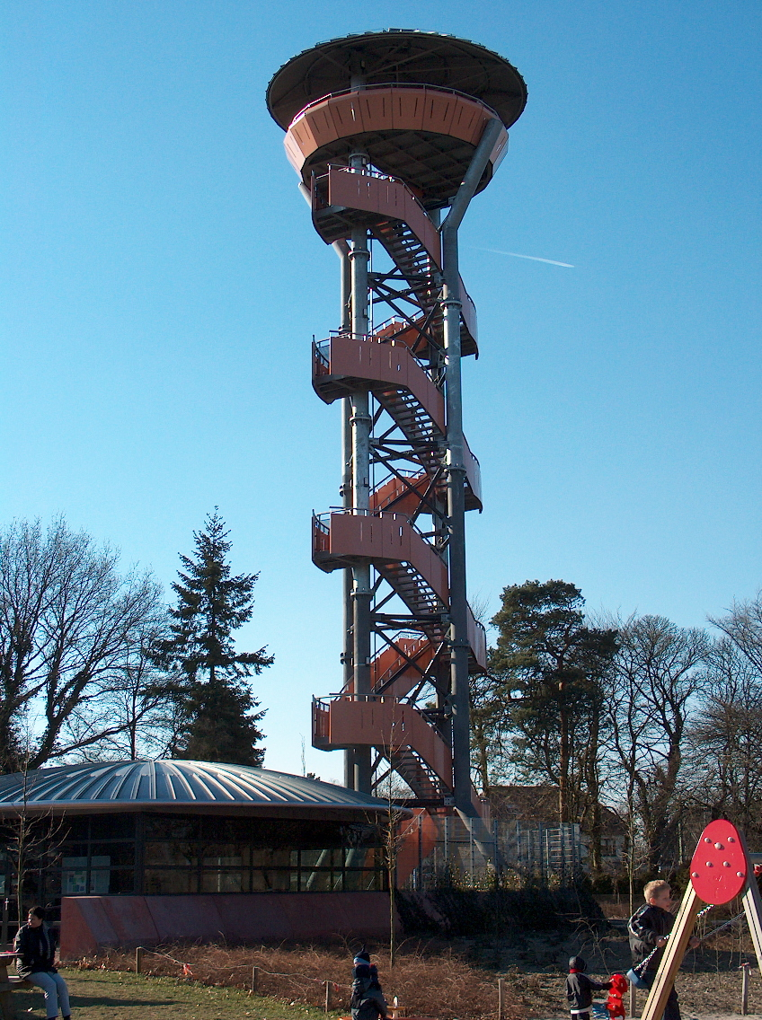 Observation tower near the Zandenbos (forest) at the edge of Nunspeet.